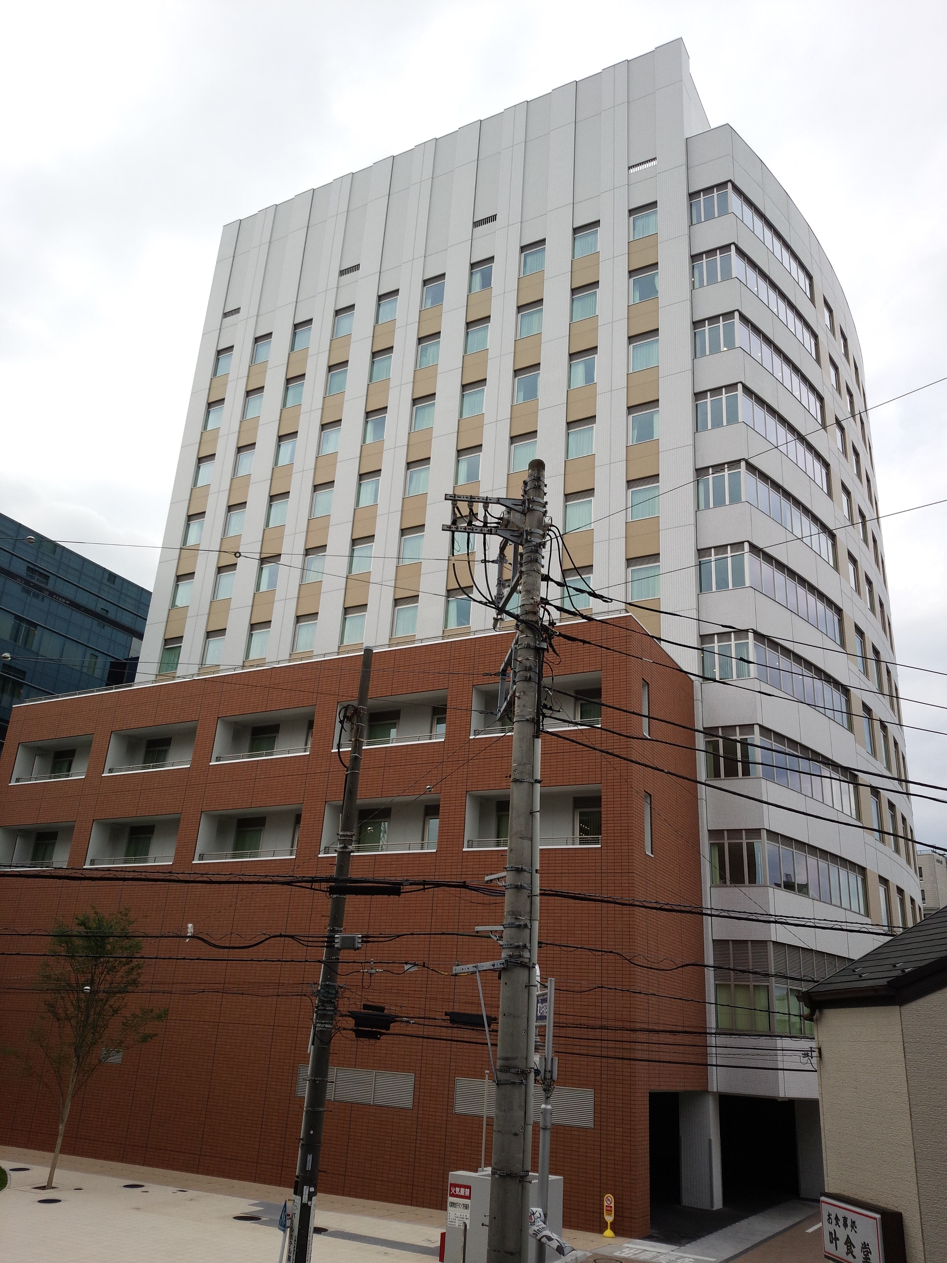 Teikyo University School of medicine University Hospital, Mizonokuchi.